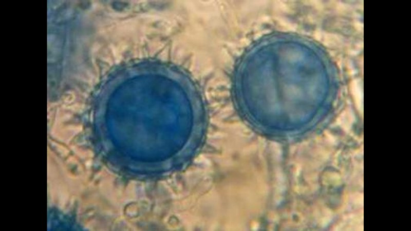 Pythium oligandrum, Clever Fungus